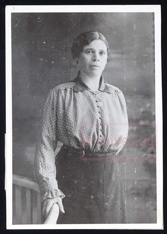 Maslina Grncharova IMARO